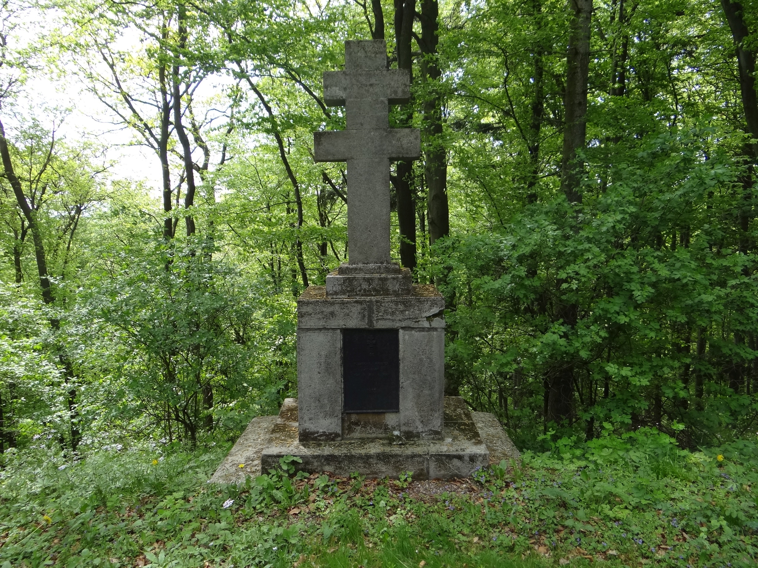 World War I Cemetery nr 185 in Lichwin